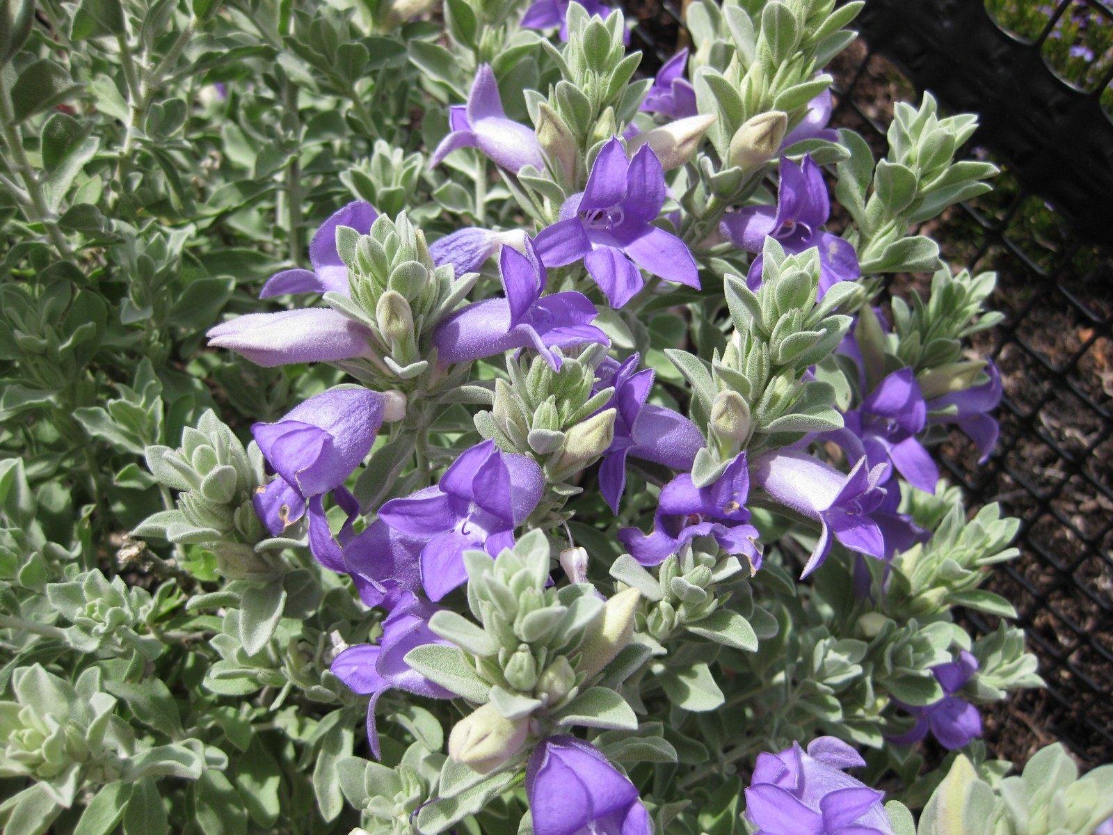 Photographed at Royal Botanic Gardens, Cranbourne (Melbourne, Australia) in December